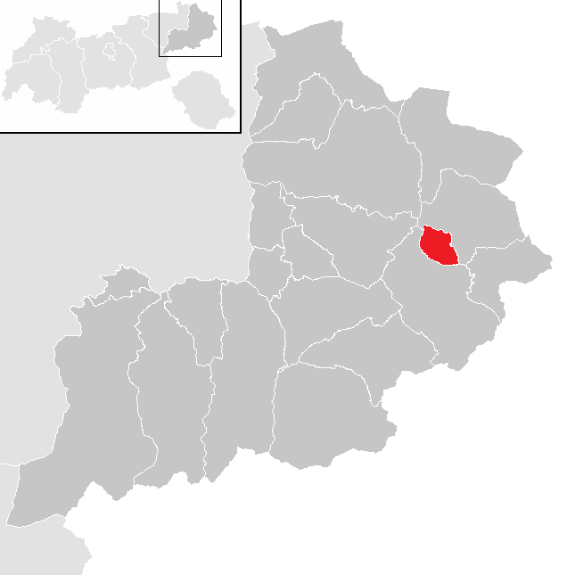 District Kitzbühel